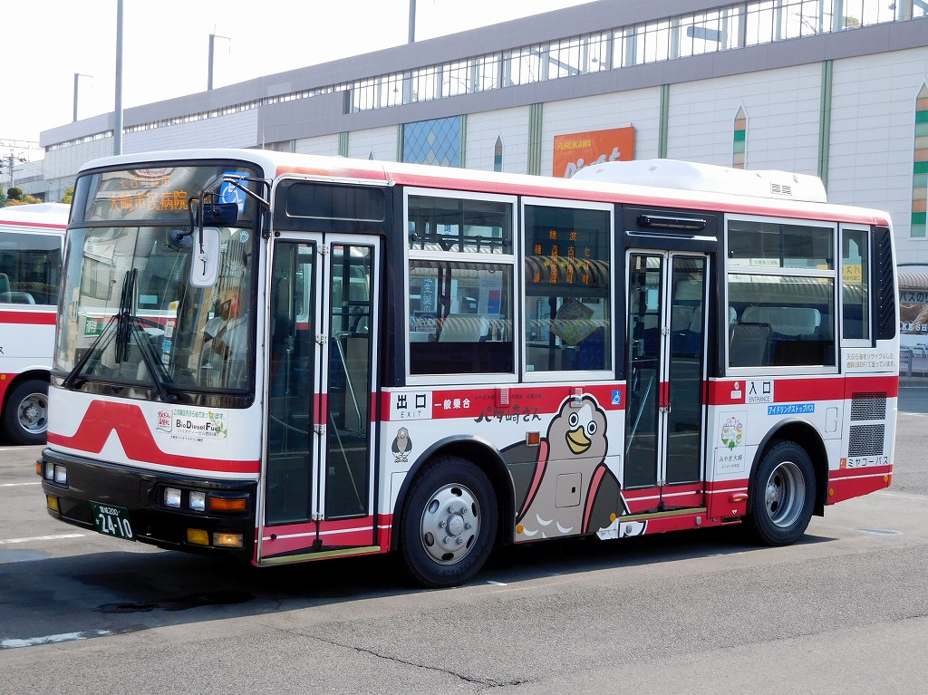 Miyakoh bus Mitsubishi Fuso Aero Midi MJ nonstep bus (KK-J27HF) for Osaki city hospital shuttle bus